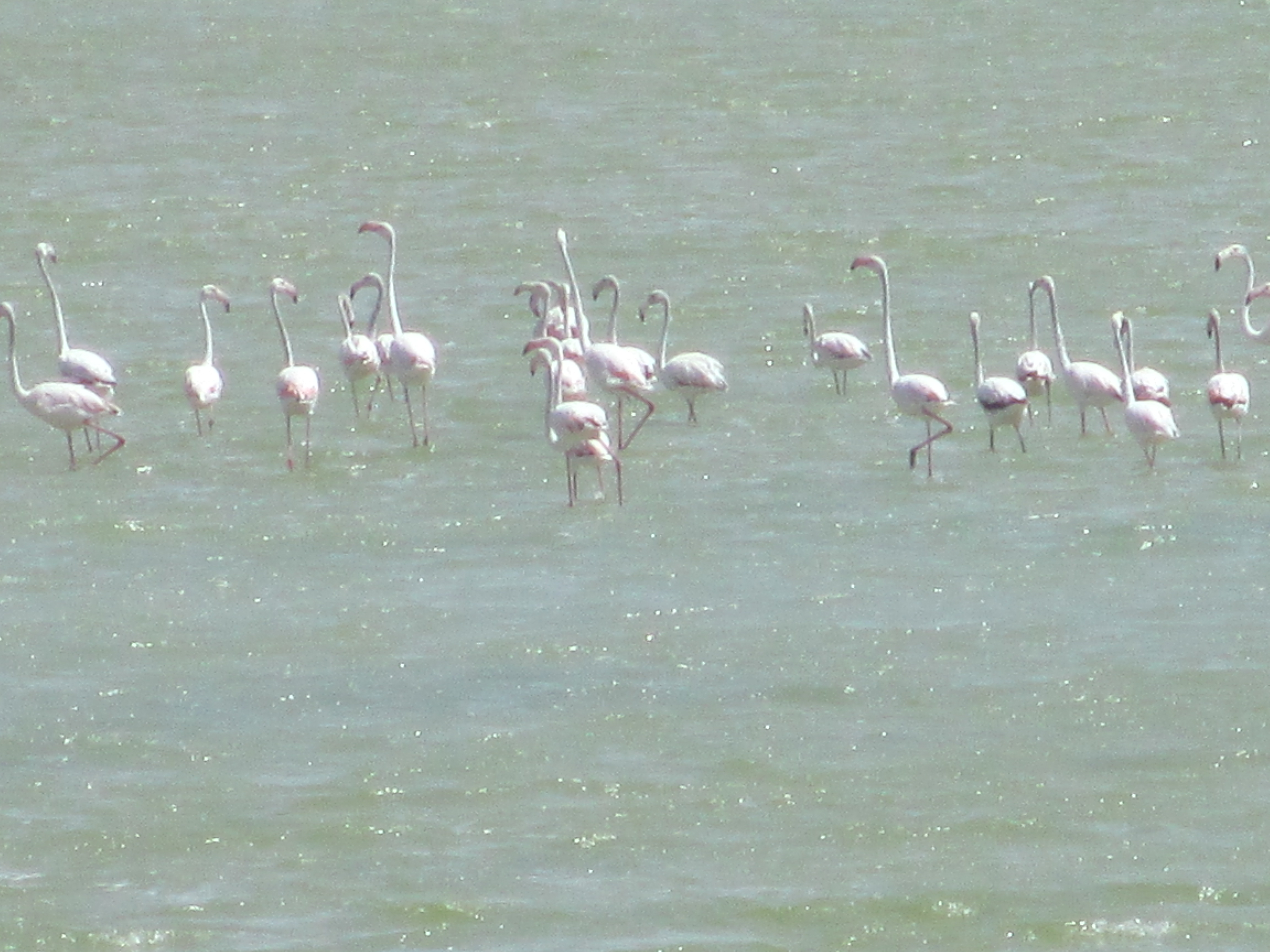 Flamingos in salt ponds in Avrona